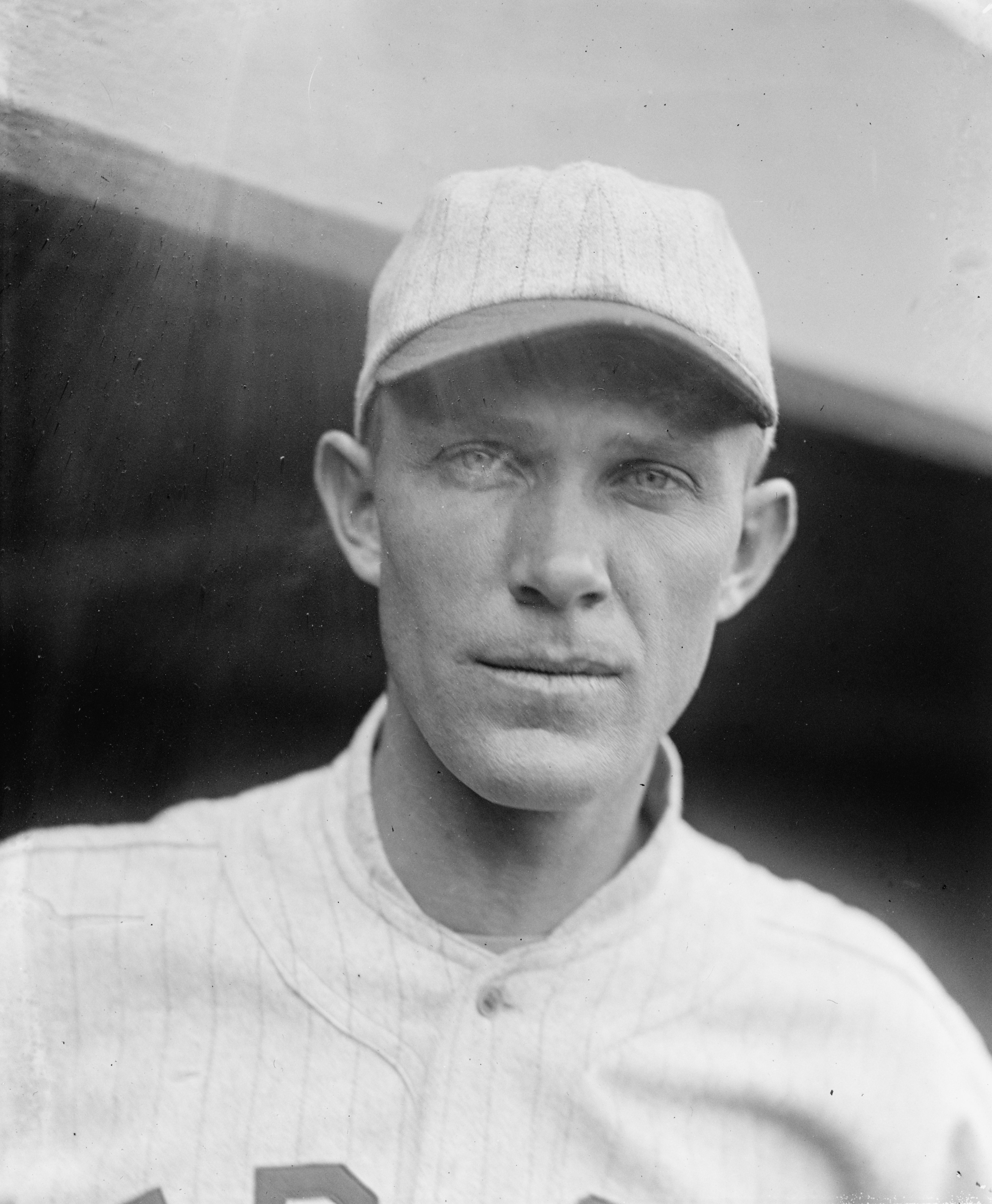 Title: Fuhr, Boston, 1924 Abstract/medium: National Photo Company Collection (Library of Congress) Physical description: 1 negative